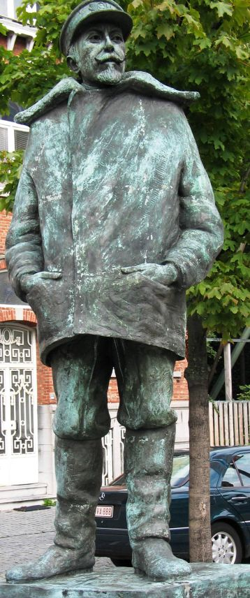 Statue of Adrien de Gerlache by Gerard Moonen in Hasselt, Belgium.